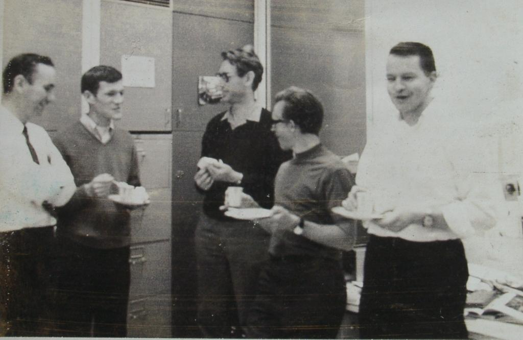 (L-to-R): Dr. Norman Braslau, Lawrence Foltzer, John Battiscombe Gunn, Dr. Brian Elliott; and John Staples, at a party for Foltzer on his last days at IBM Research, Yorktown Heights, New York, USA